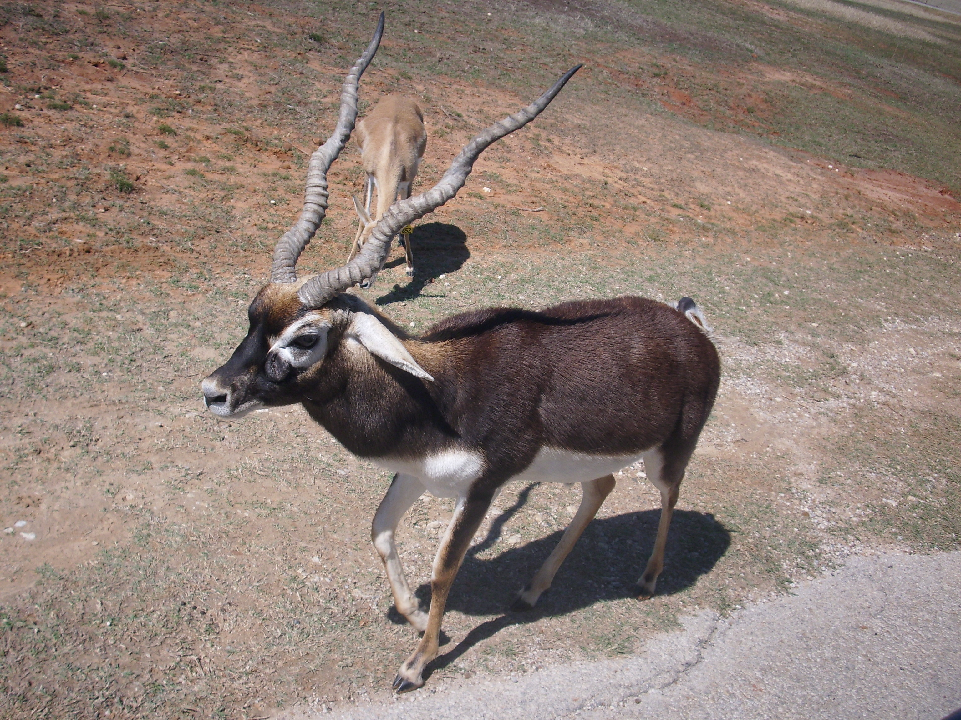 A blackbuck antelope, photographed at the Fossil Rim Wildlife Center.